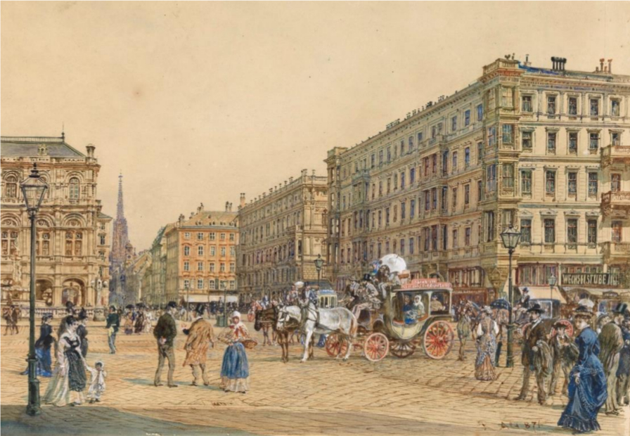 The Opera Crossroads in Vienna.